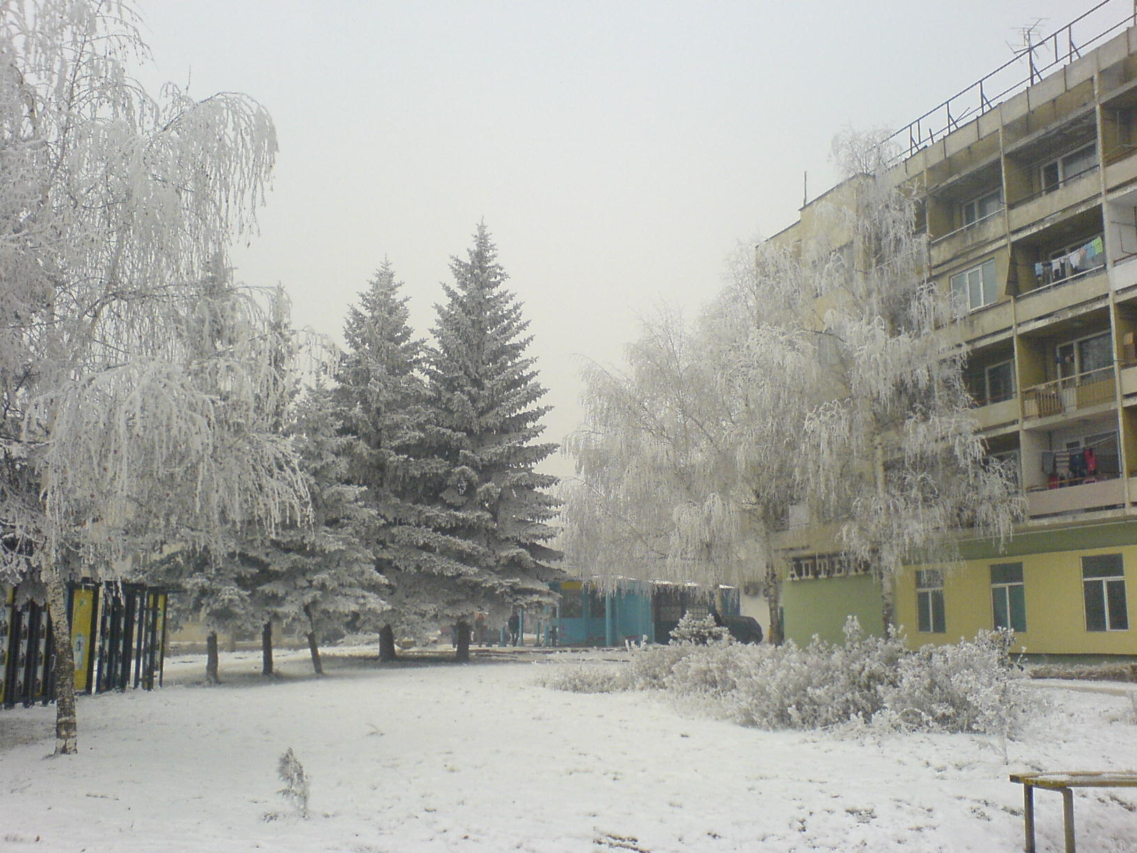 Fog in December, Slivnitsa, Bulgaria